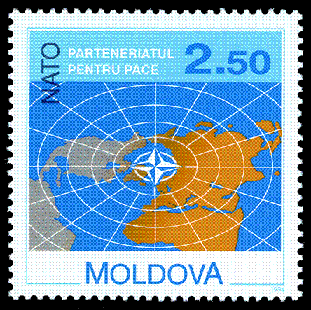 Stamp of Moldova